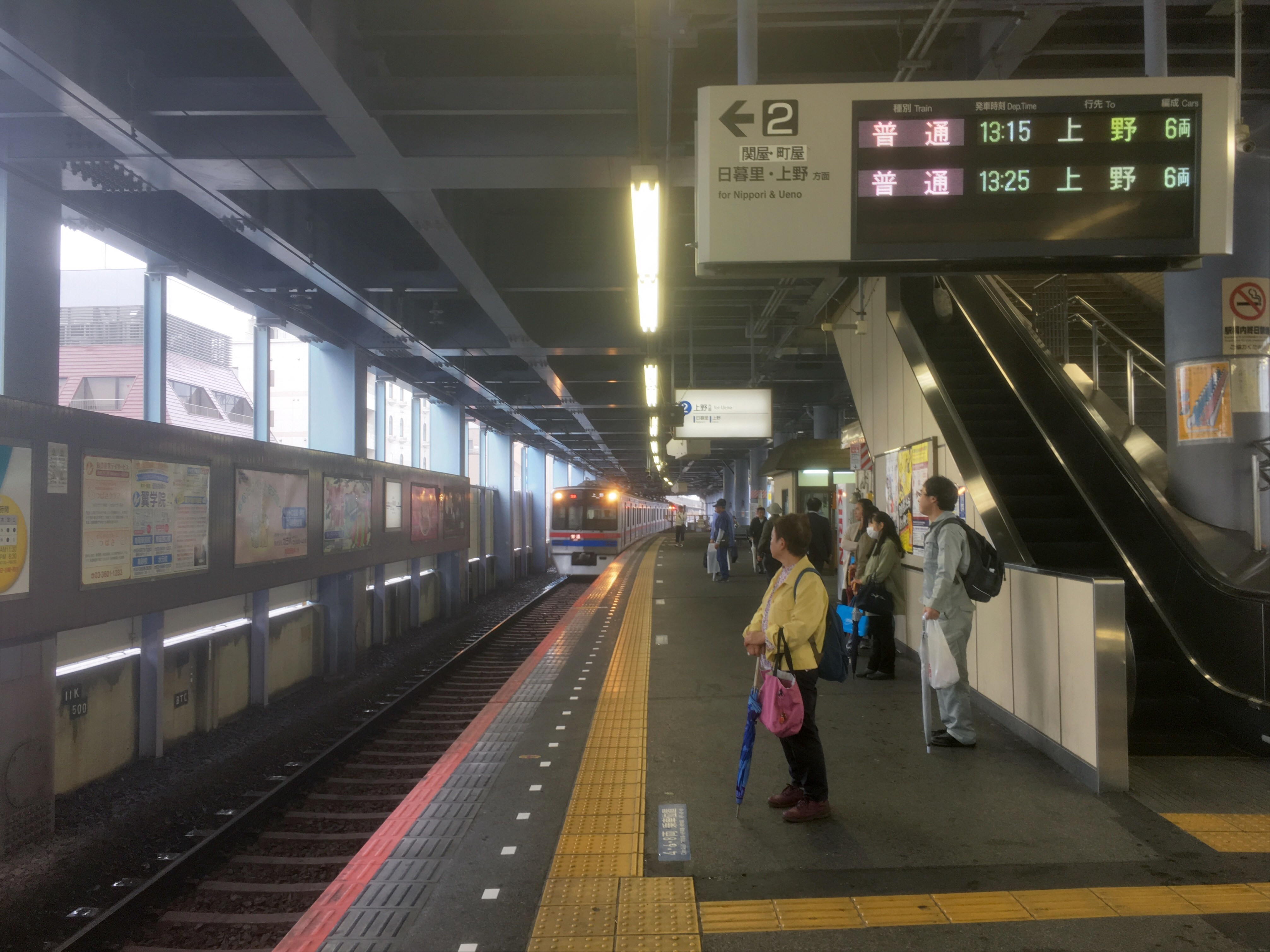 青砥駅のホーム (Aoto Station platform)